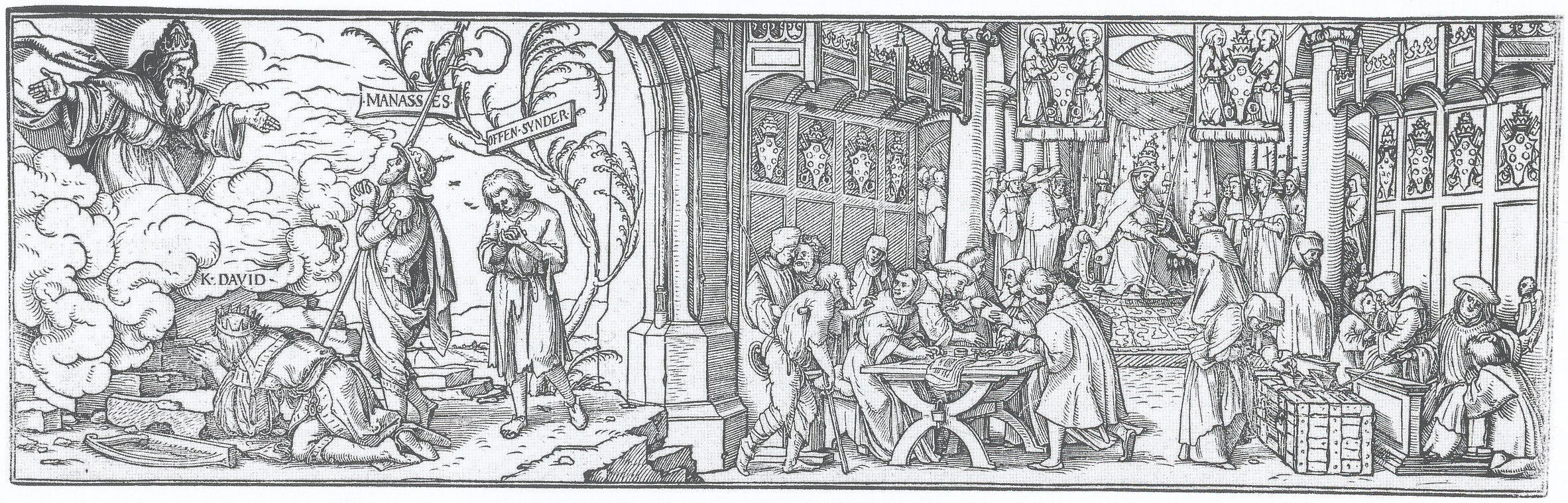 The Sale of Indulgences. Woodcut, 8.2 ×27 cm, Kunstmuseum Basel.